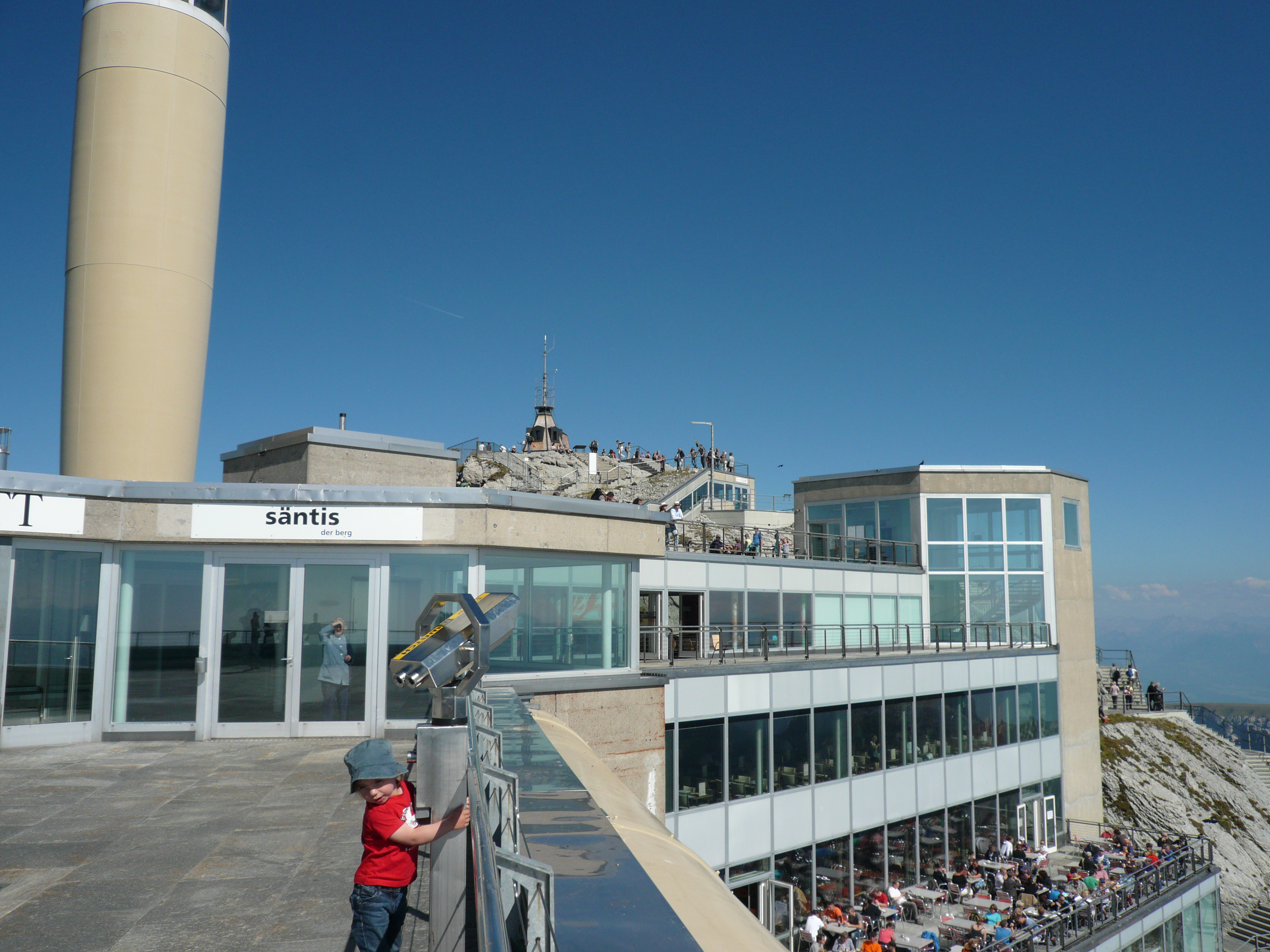 On top of Saentis mountain, Switzerland